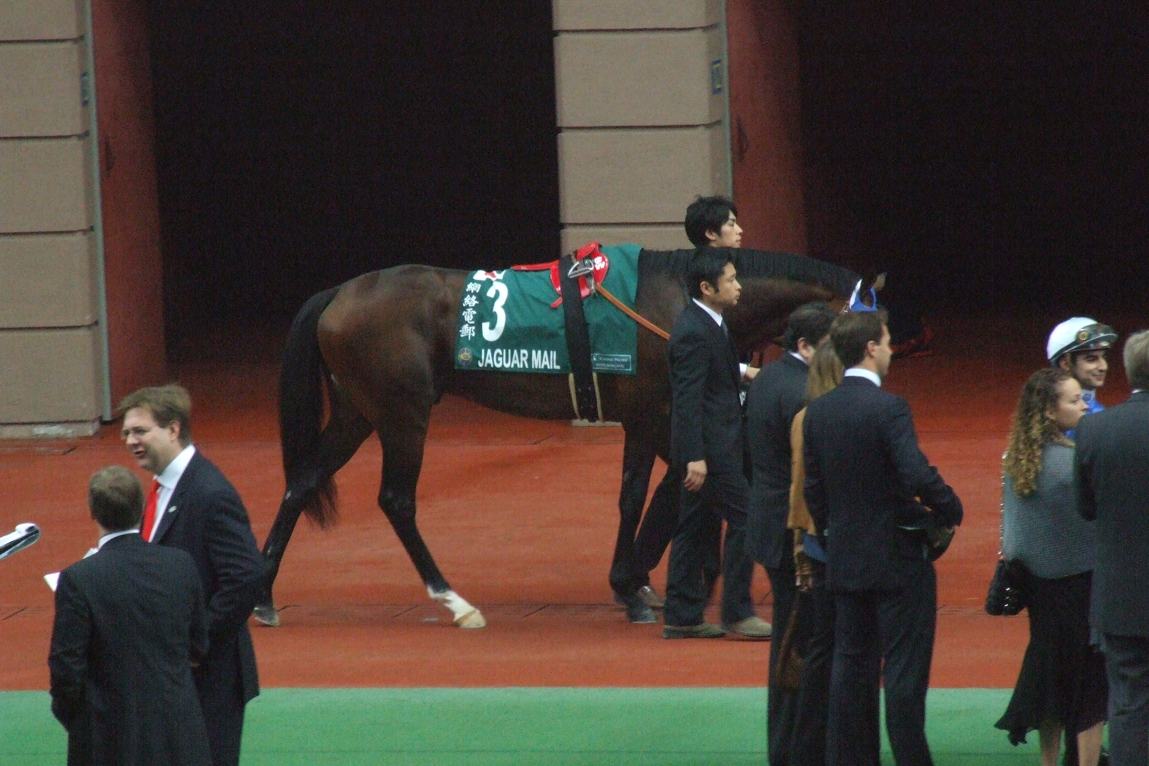 Jaugar Mail 中文（香港）: 網絡電郵